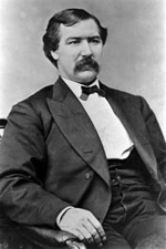 Portrait of Senator Alexander McDonald of Arkansas